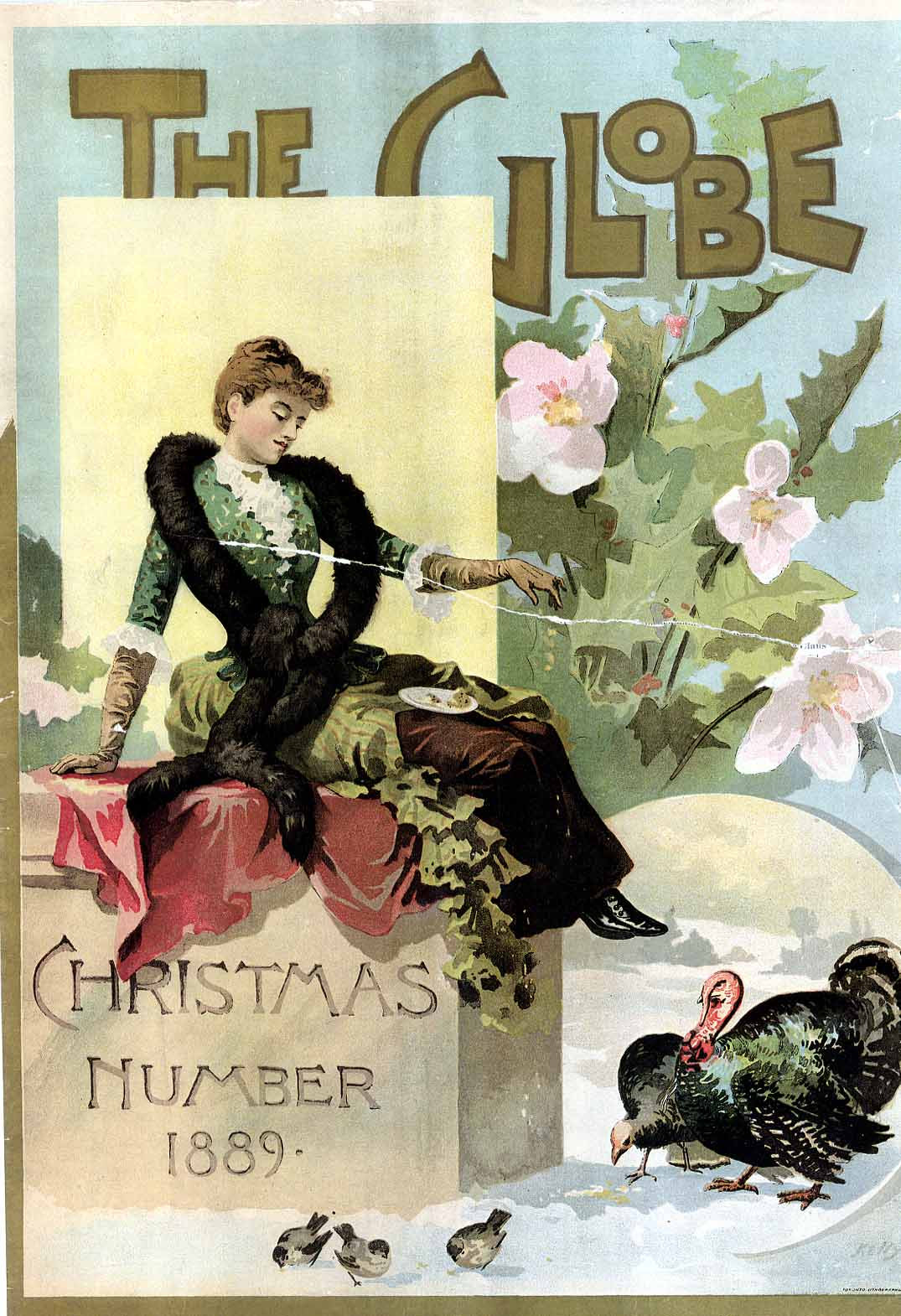 Cover of the Globe, Christmas 1889